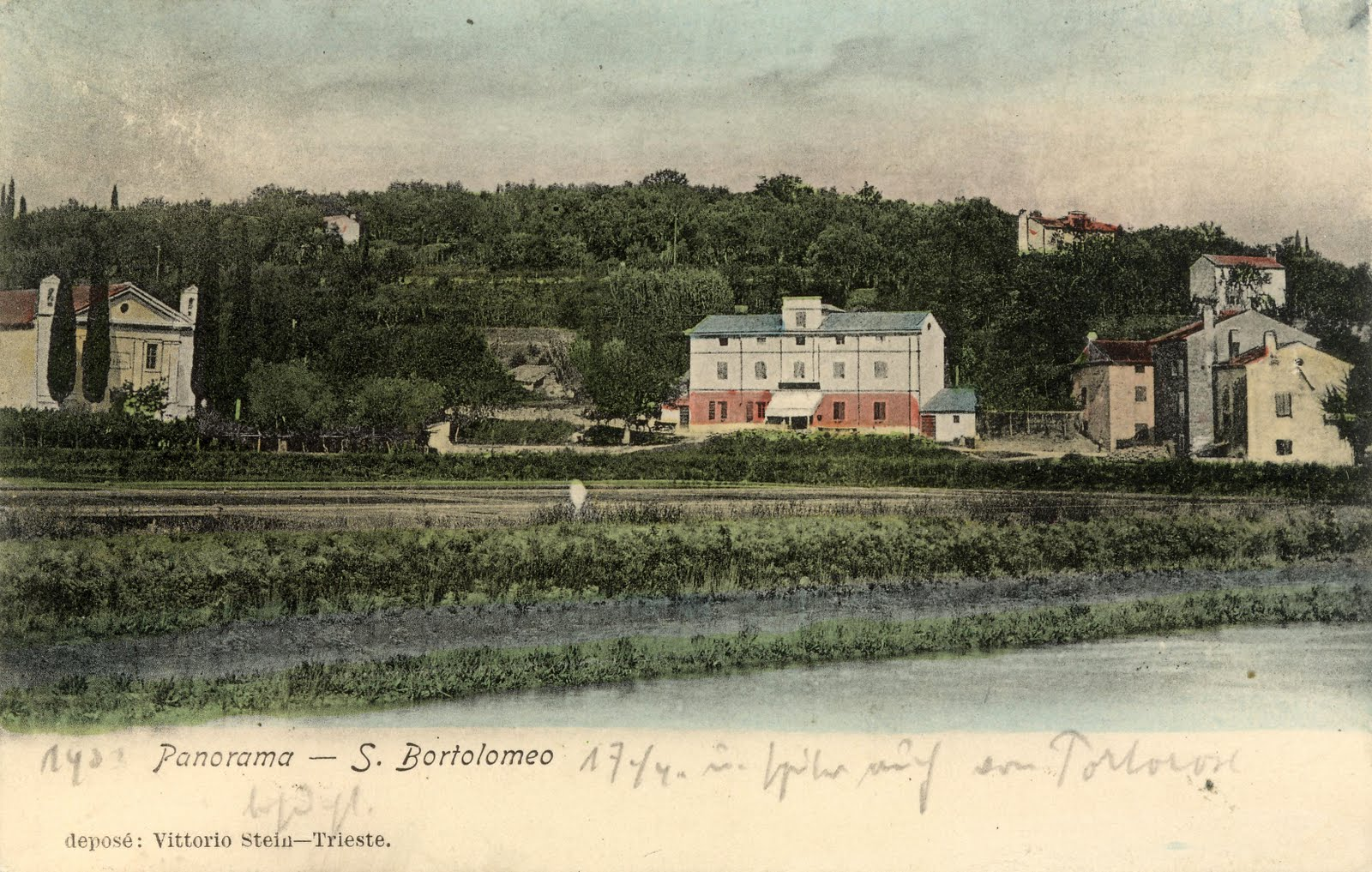 Postcard of Sečovlje